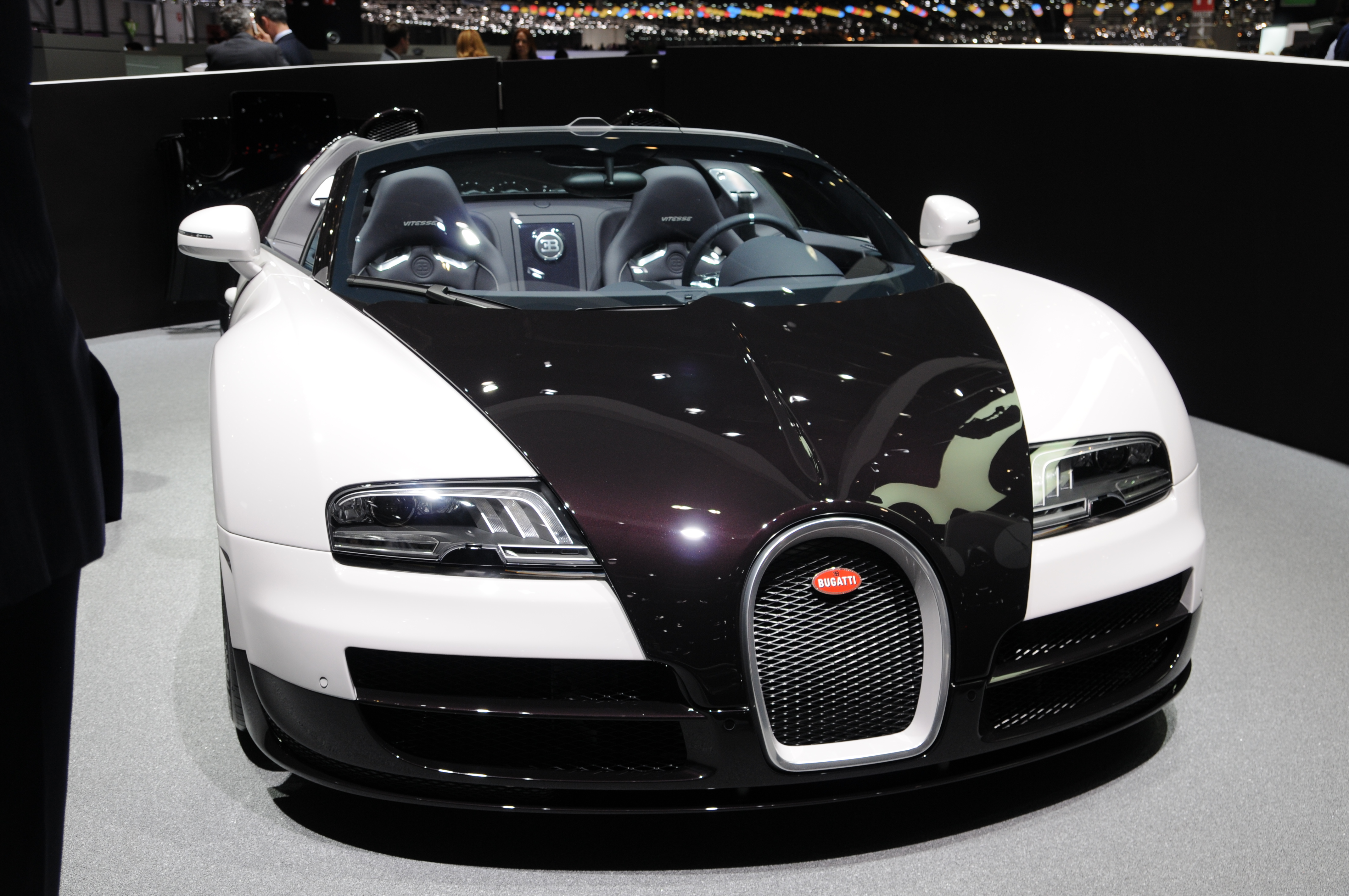 Geneva Motor Show 2014 (photo taken on the first press day)